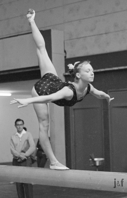 Natalia Kuchinskaya, World Championships